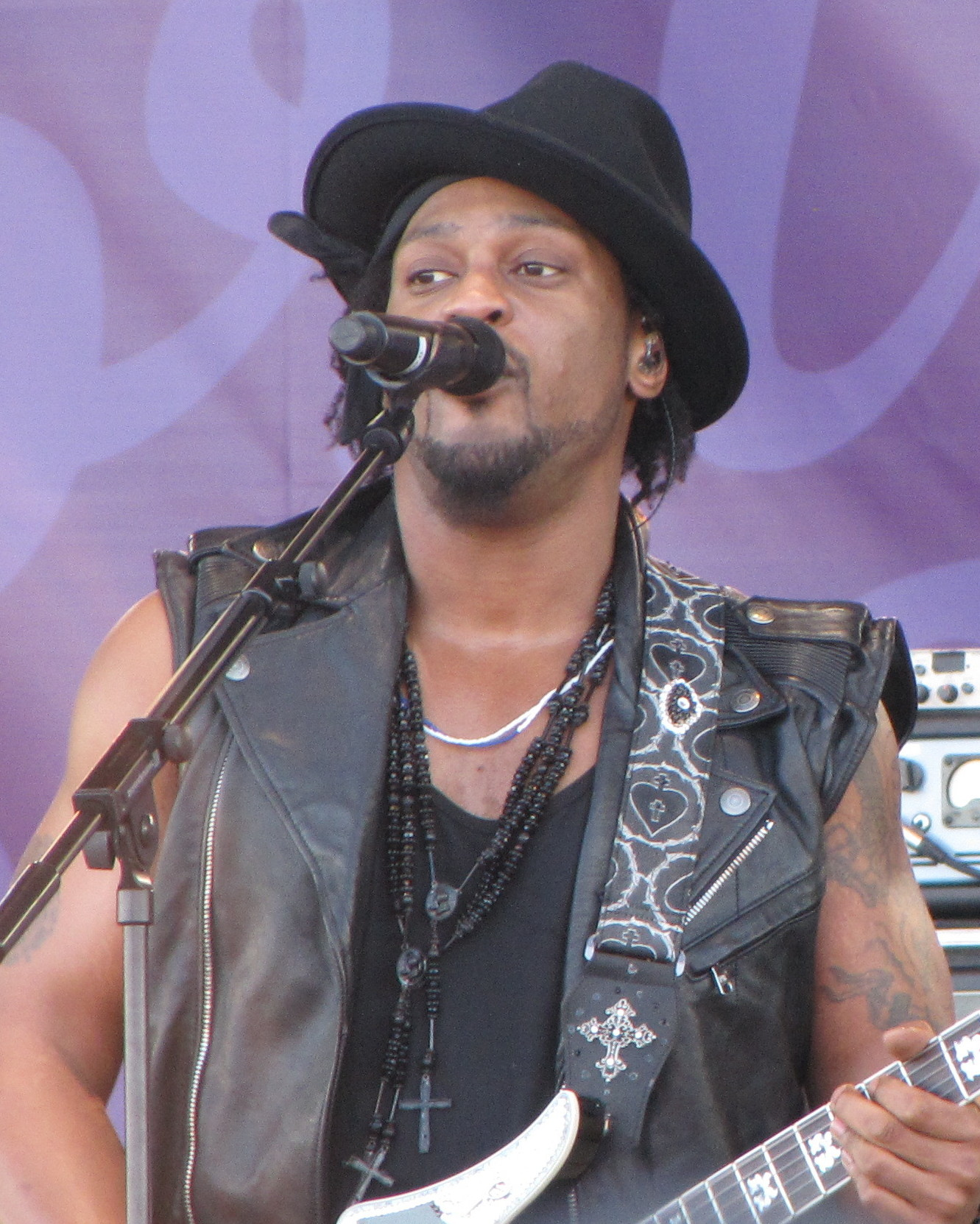 Singer D'Angelo performing at Pori Jazz festival in Pori, Finland.